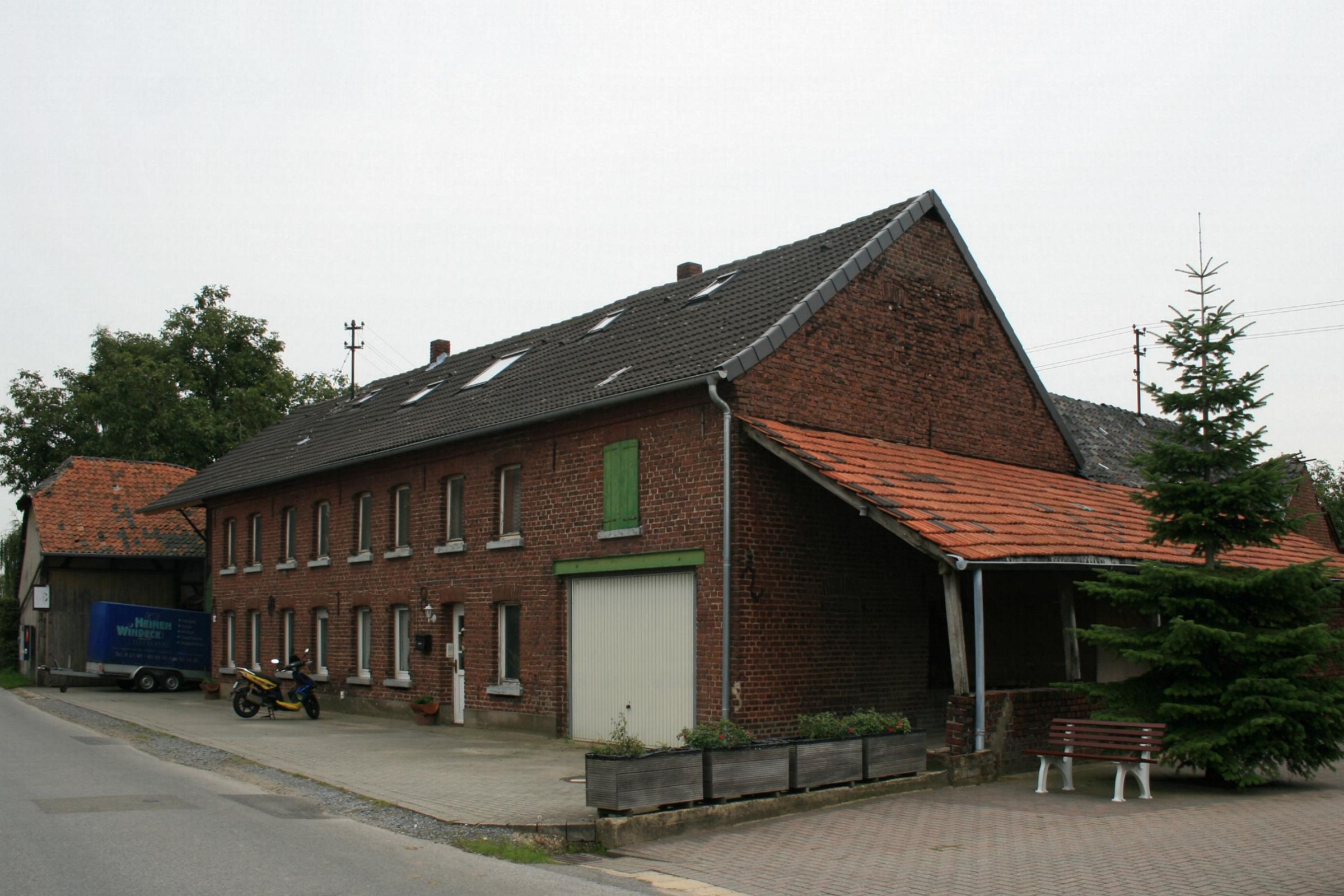 Cultural heritage monument No. K 042 in Mönchengladbach